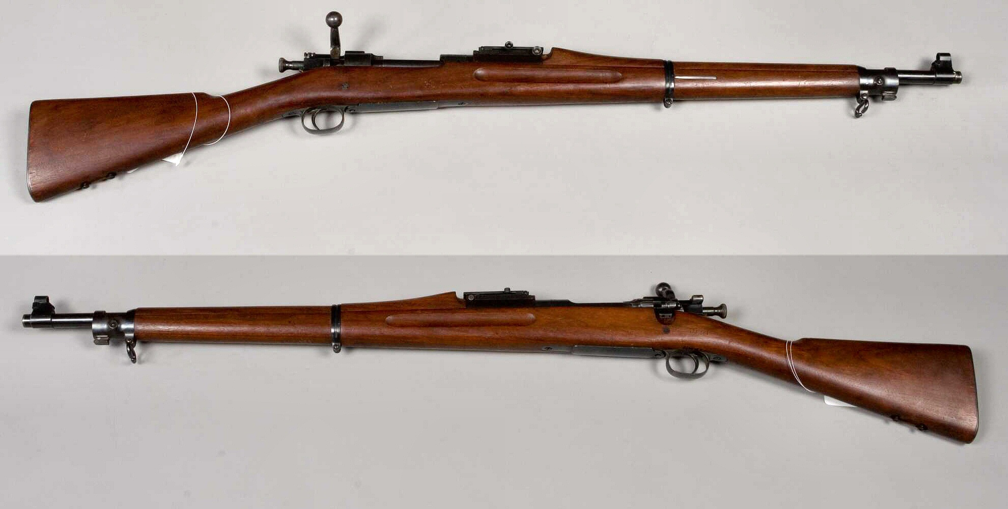 M1903 Springfield rifle, USA. Caliber .30-06. From the collections of Armémuseum (Swedish Army Museum), Stockholm.